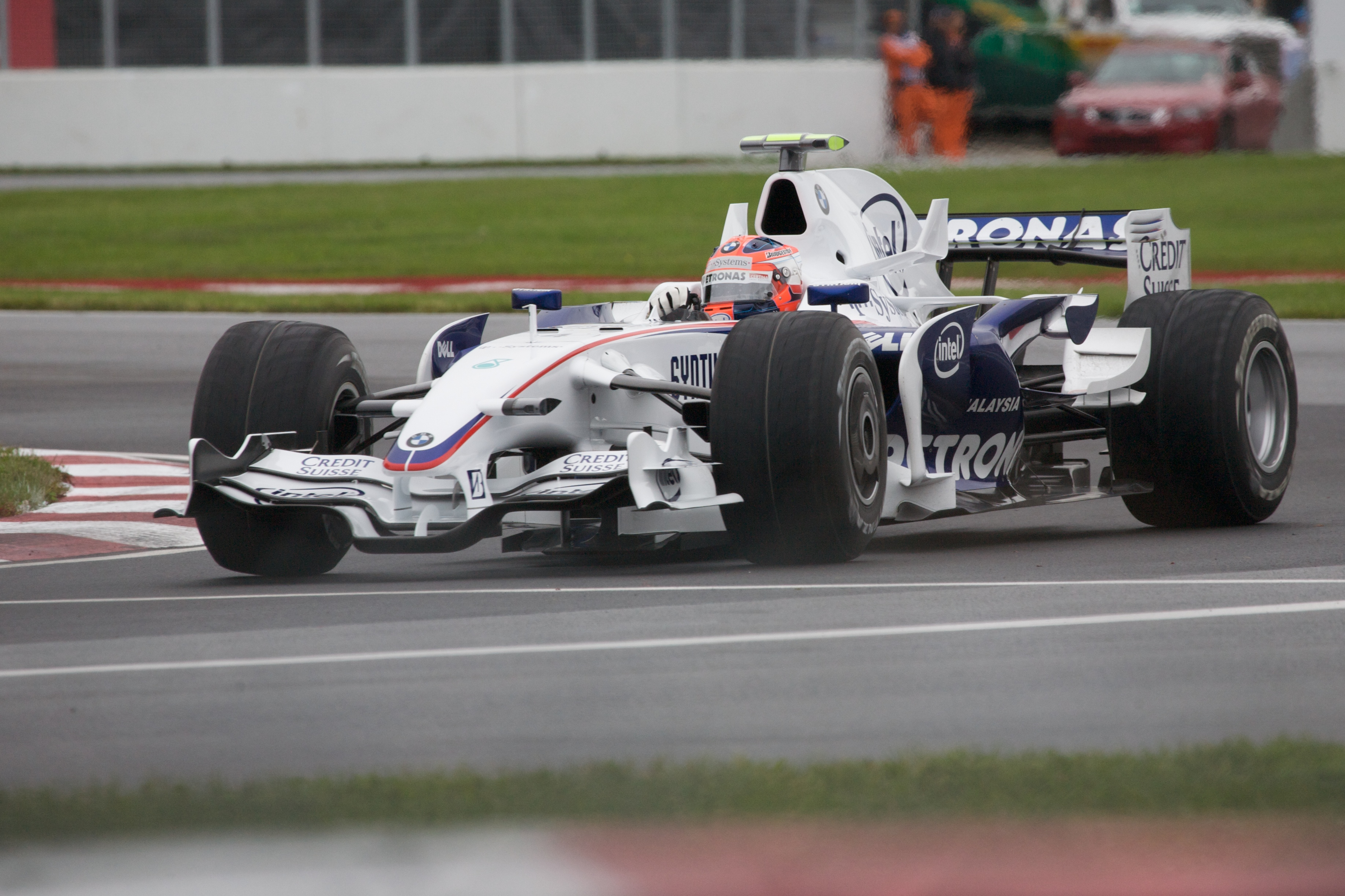 Robert Kubica driving for BMW Sauber at the 2008 Canadian Grand Prix.